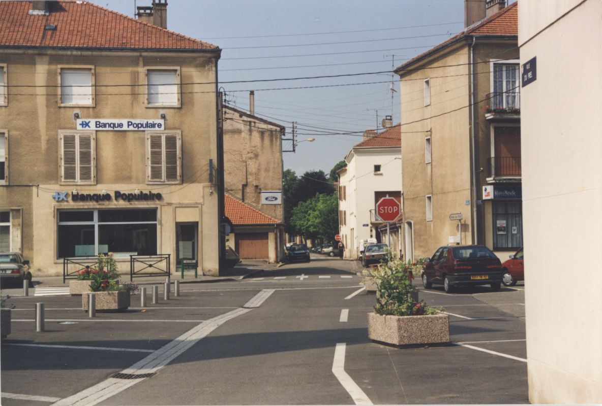 A view of Dieuze in 1996. Because of the total destuction of squares, as this one, This view was taken as accurately as possible to where was the photo taken of the postcard from 1902.